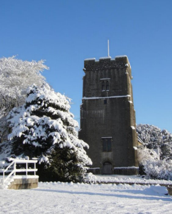 St. Peter's Church, Peterston-Super-Ely